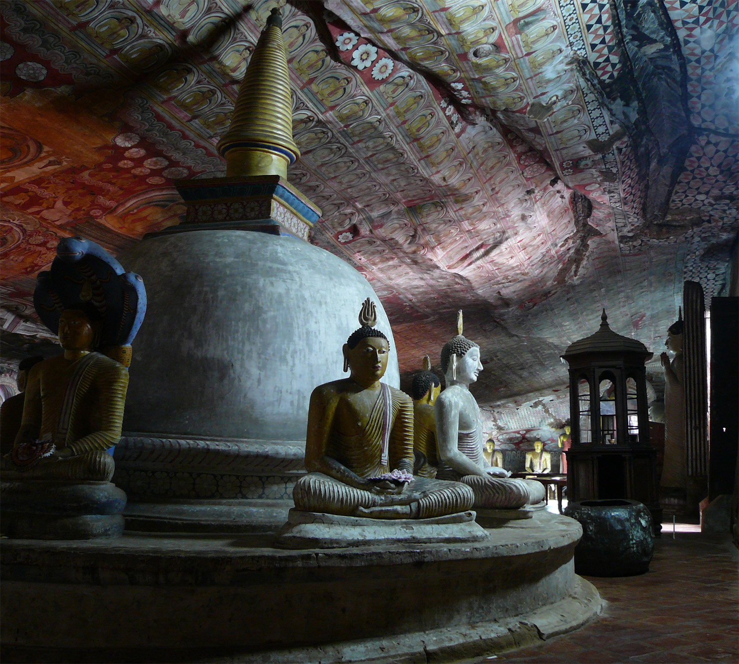 Stupa with sitting Buddhas around it, in the Dambulla complex of cave monasteries. Sri Lanka.